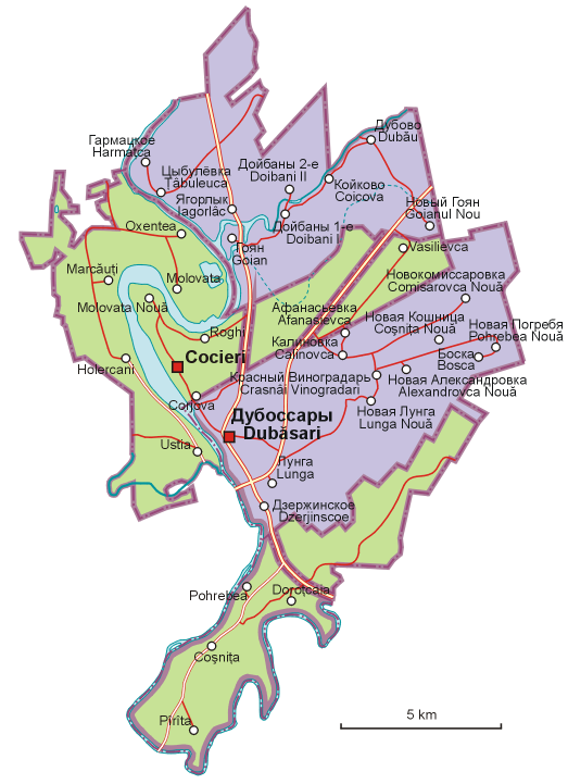 Dubăsari district - Moldovian (green) and Transnistrian (violet) parts